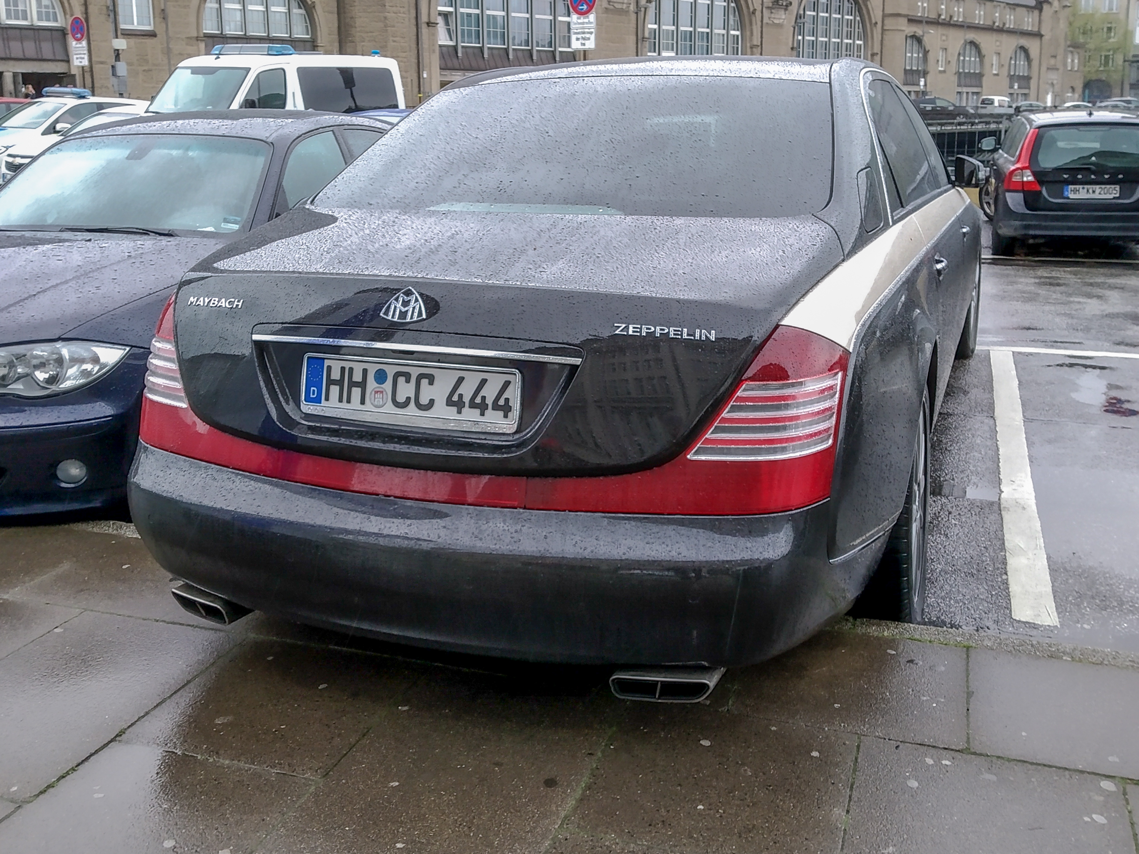 Maybach 62 Zeppelin in Hamburg